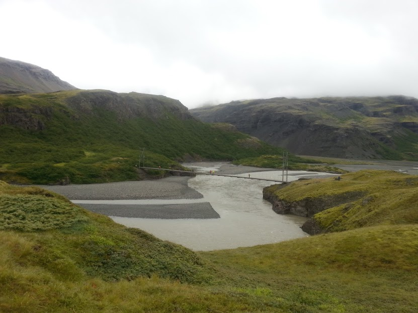 hiking bridge